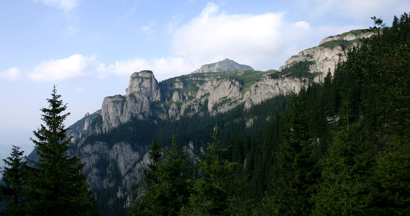 Ceahlău Mountains, Romania